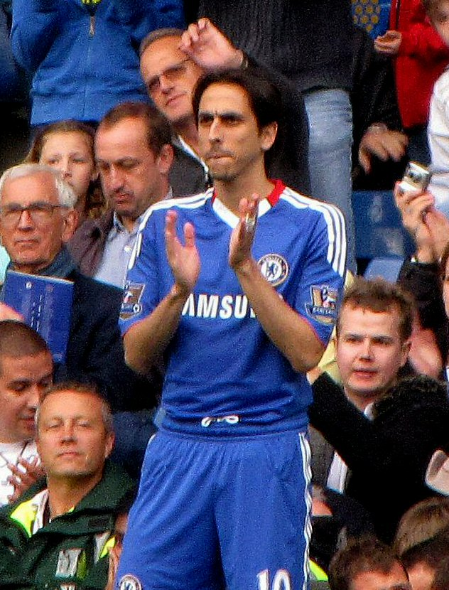 Yossi Benayoun prepares to come on as a substitute for Chelsea, Septemebr 2010